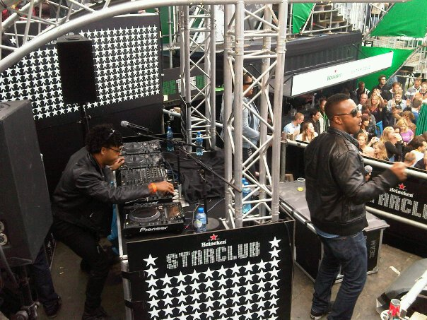 Andy Sherman